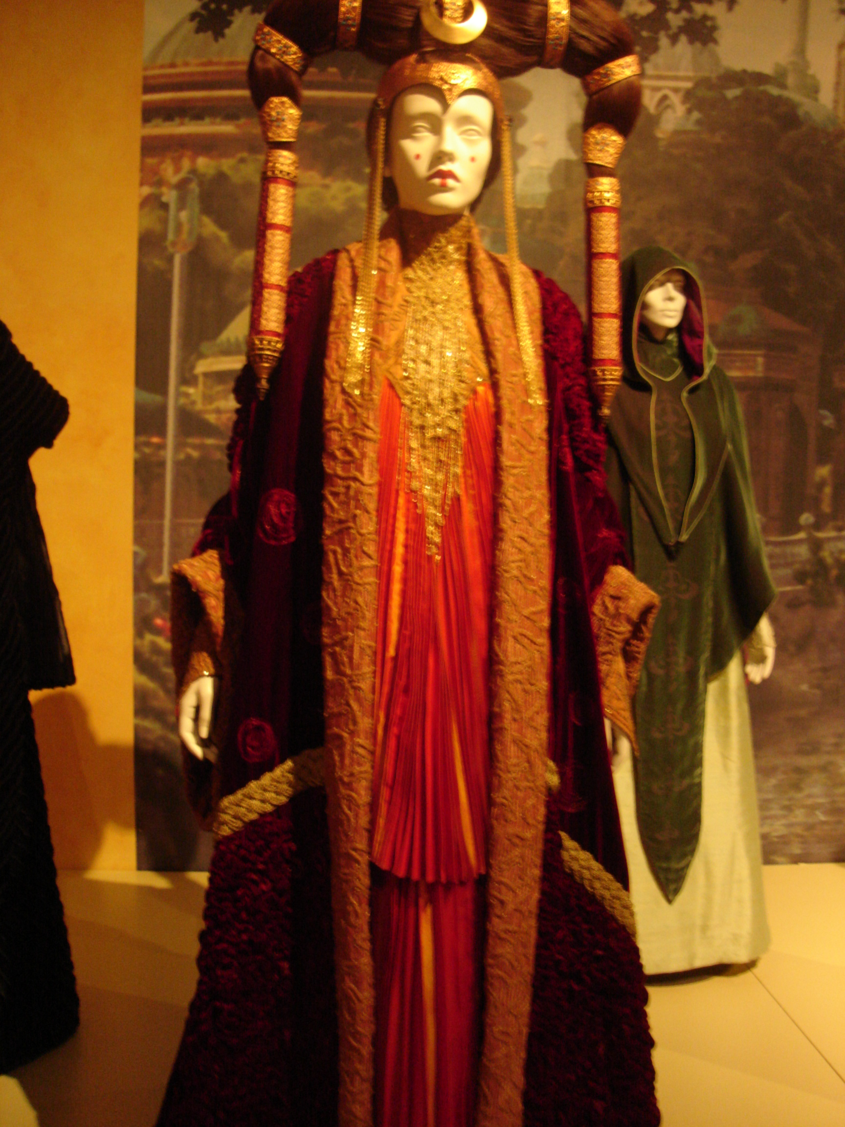 Queen of Naboo costume: taken at the "Fashion of Star Wars" FIDM premiere